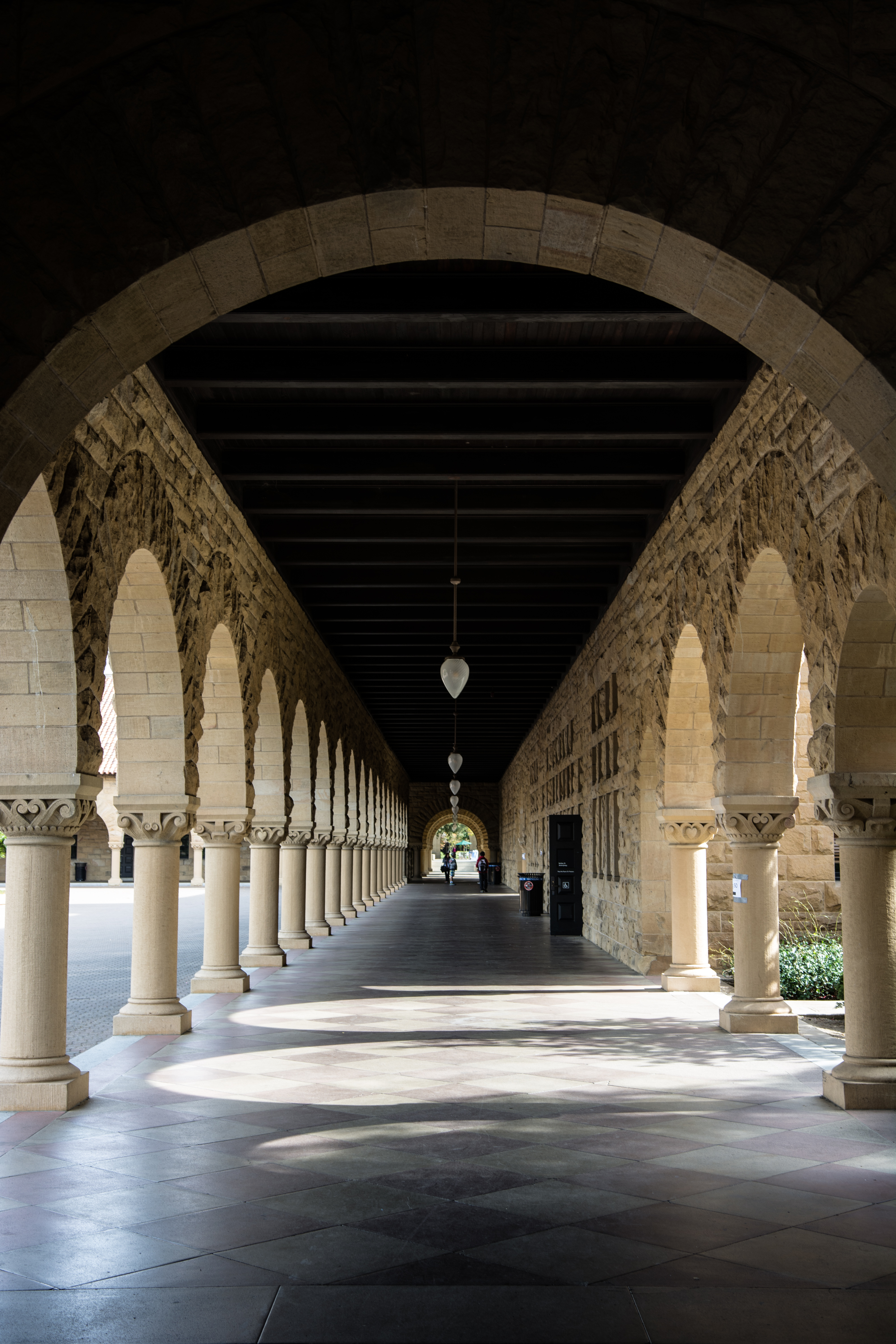 Stanfored University is a very famous university in California, the United States of America. スタンフォード大学は言わずと知れたカリフォルニアにある有名大学です。 [ Nikon D5200, Nikon AF-S NIKKOR 16-35mm f/4G ED VR, 30mm, f/4.0, 1/60sec, ISO100, Lightroom 5 ]